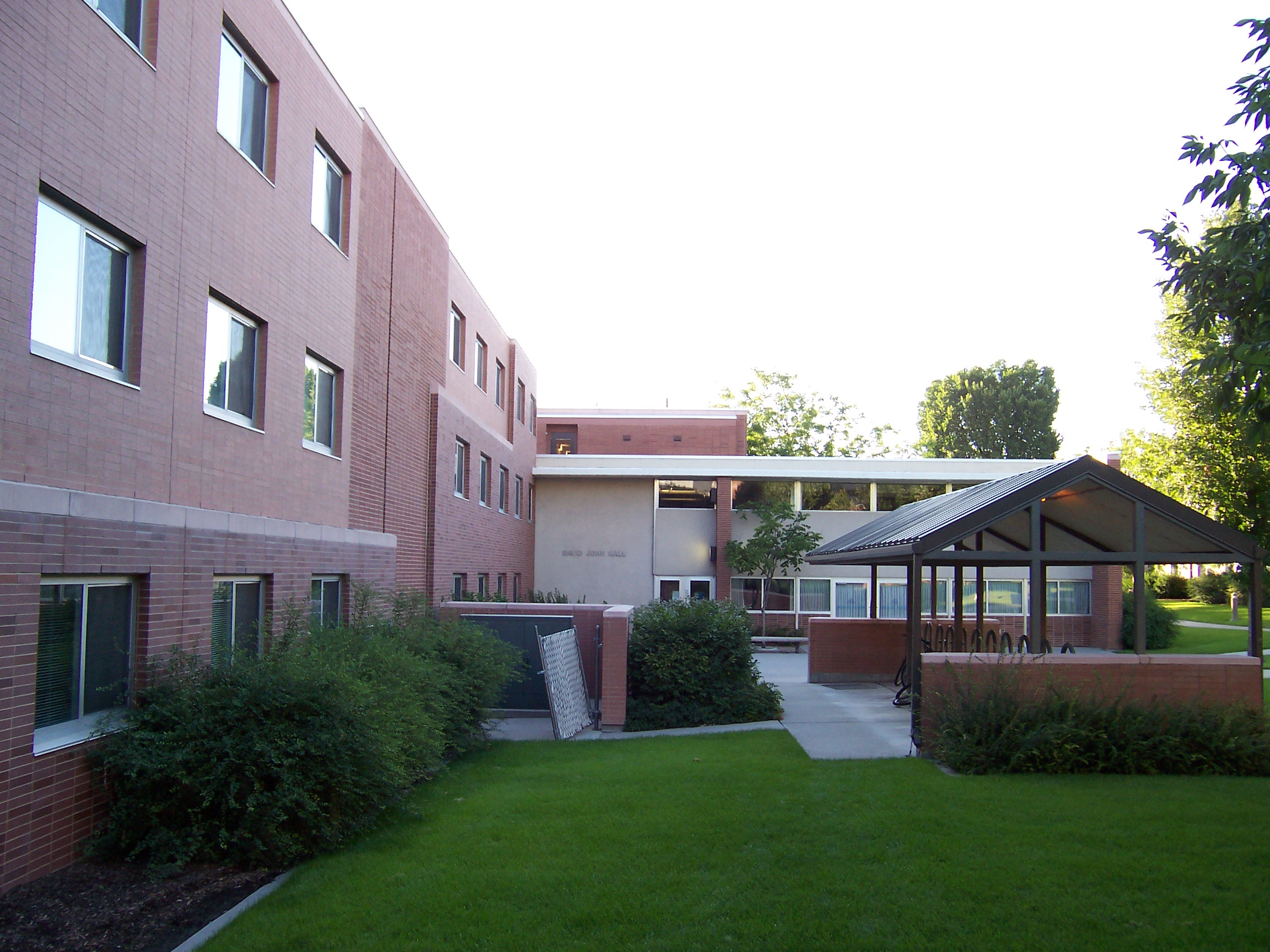 Photograph of Helaman Halls (D) John (David) Hall at Brigham Young University.